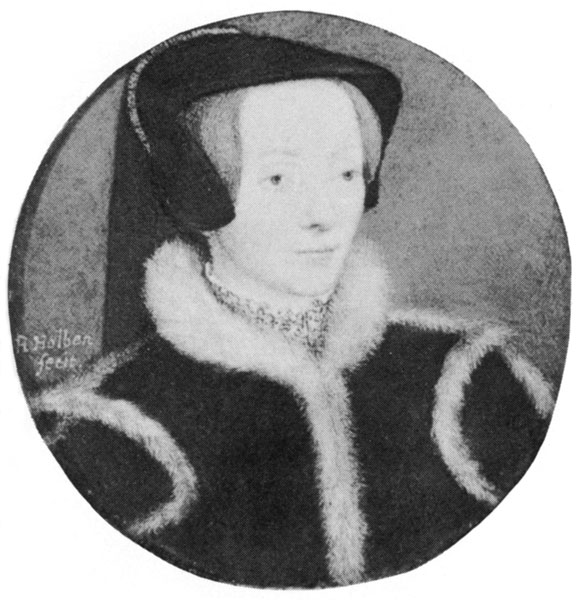 Catherine Willoughby, Baroness Willoughby de Eresby, portrait miniature by Hans Holbein.